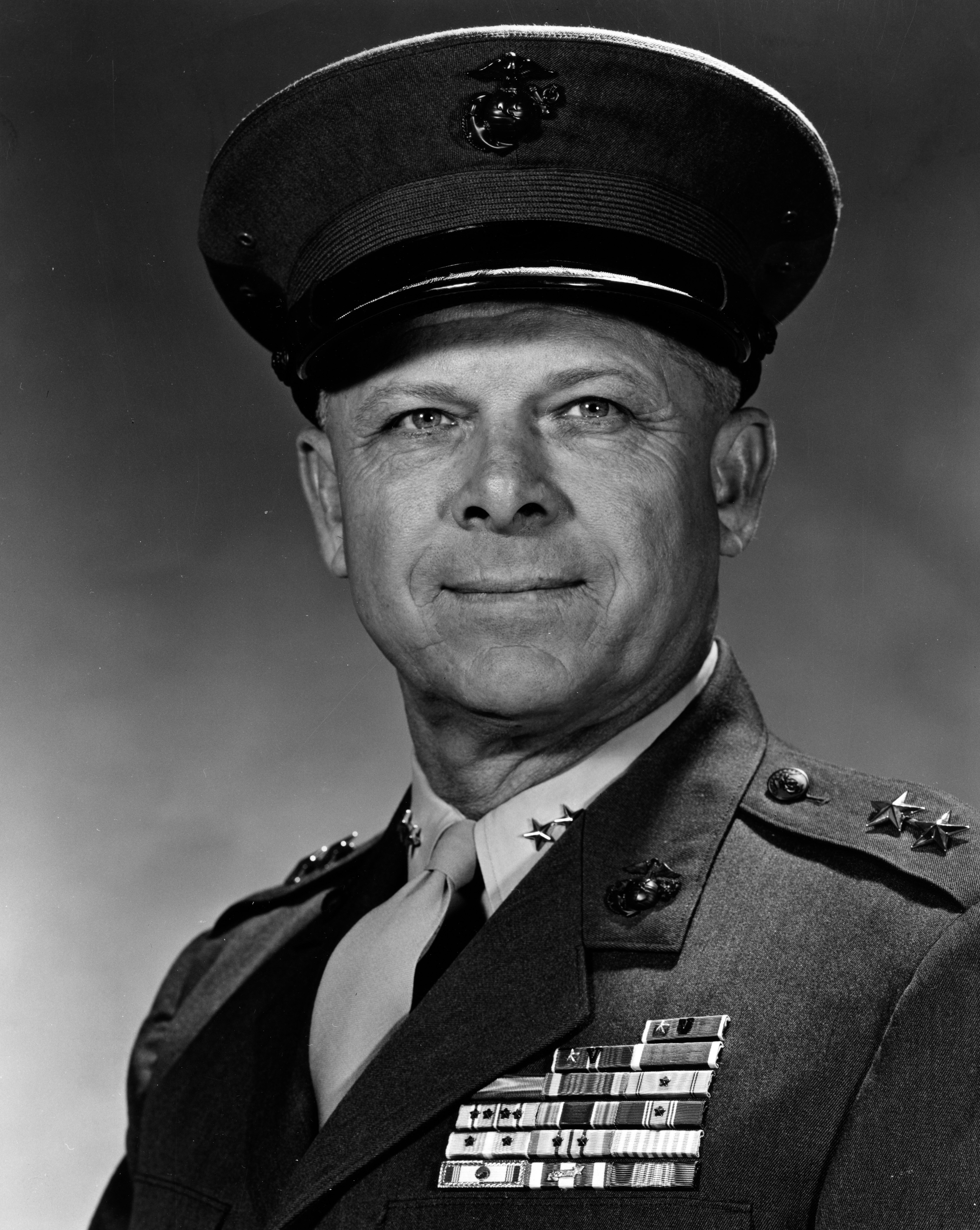 Lowell Edward English (July 8, 1915 – September 29, 2005) was a highly decorated officer in the United States Marine Corps with the rank of Major General who served in World War II, Korea and Vietnam. He is most noted for his service as Assistant Division Commander, 3rd Marine Division during Vietnam War and later as Commanding general, Task Force Delta. He completed his career as Commanding general, Marine Corps Recruit Depot San Diego in 1969.